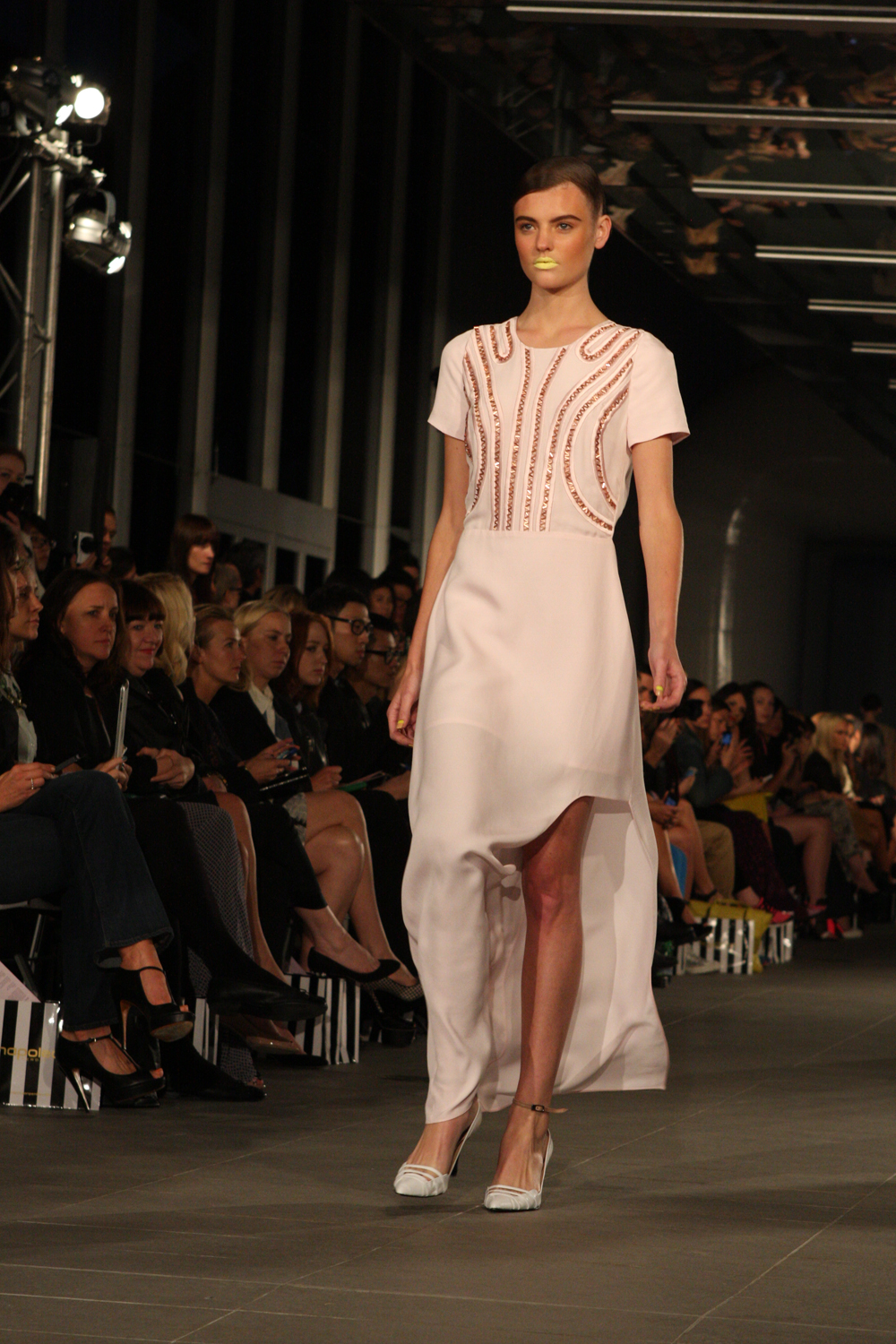 Sydney Australia, A model showcases designs by Magdalena Velevska Sydney day two of Mercedes Benz Fashion week Australia, Spring Summer 2012/2013 at The Australian National Maritime Museum Sydney Photo by Eva Rinaldi/Splash News